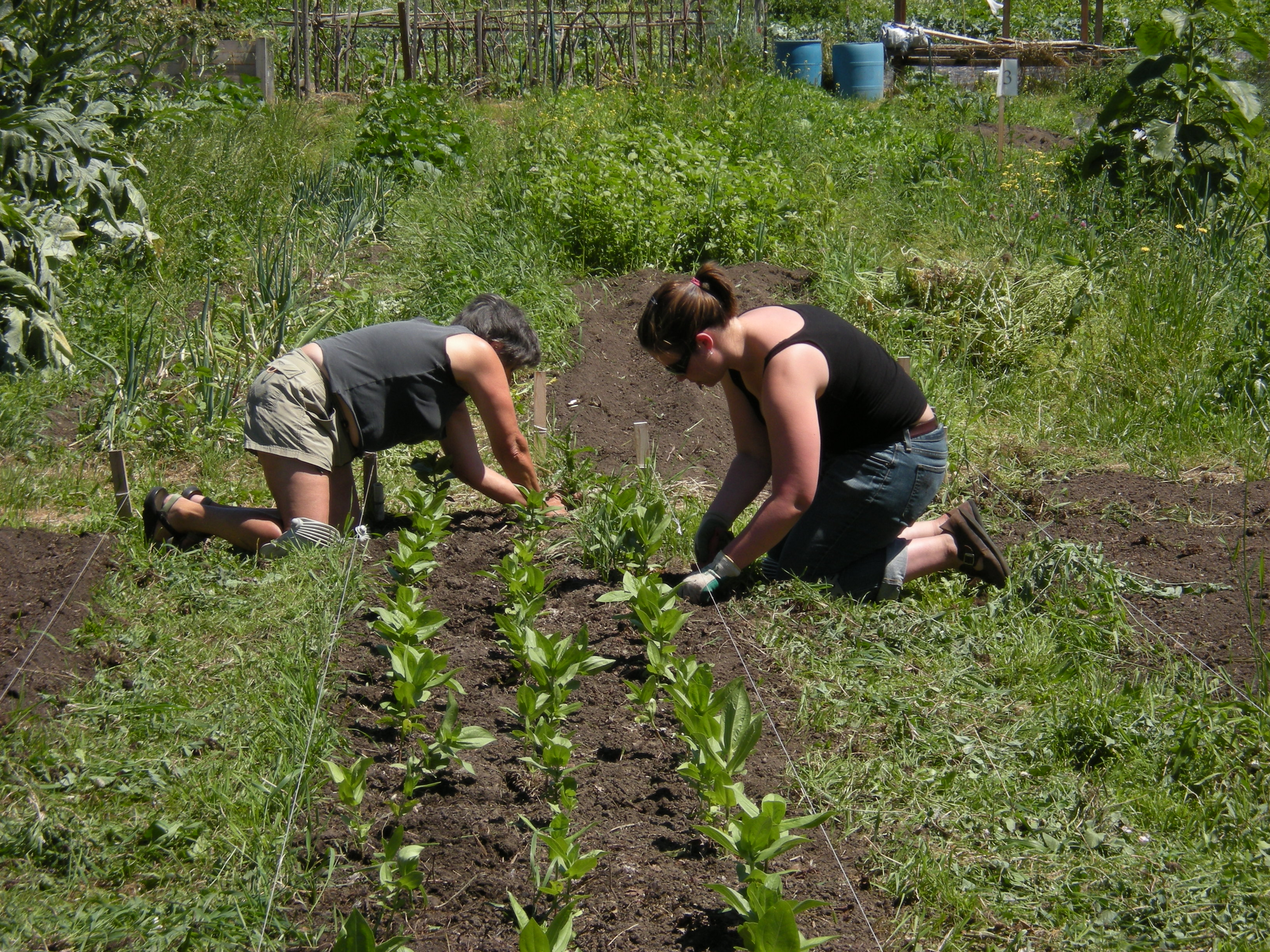 Marra Farm, South Park, Seattle, Washington. Like the original P-Patch (Picardo Farm), prior to its inclusion in the P-Patch program, Marra Farm was a working farm owned by Italian immigrant farmers. It was sold to the county in the 1970s; restoration efforts began in 1997. See Marra Farm on the site of the Seattle anti-poverty group Solid Ground.